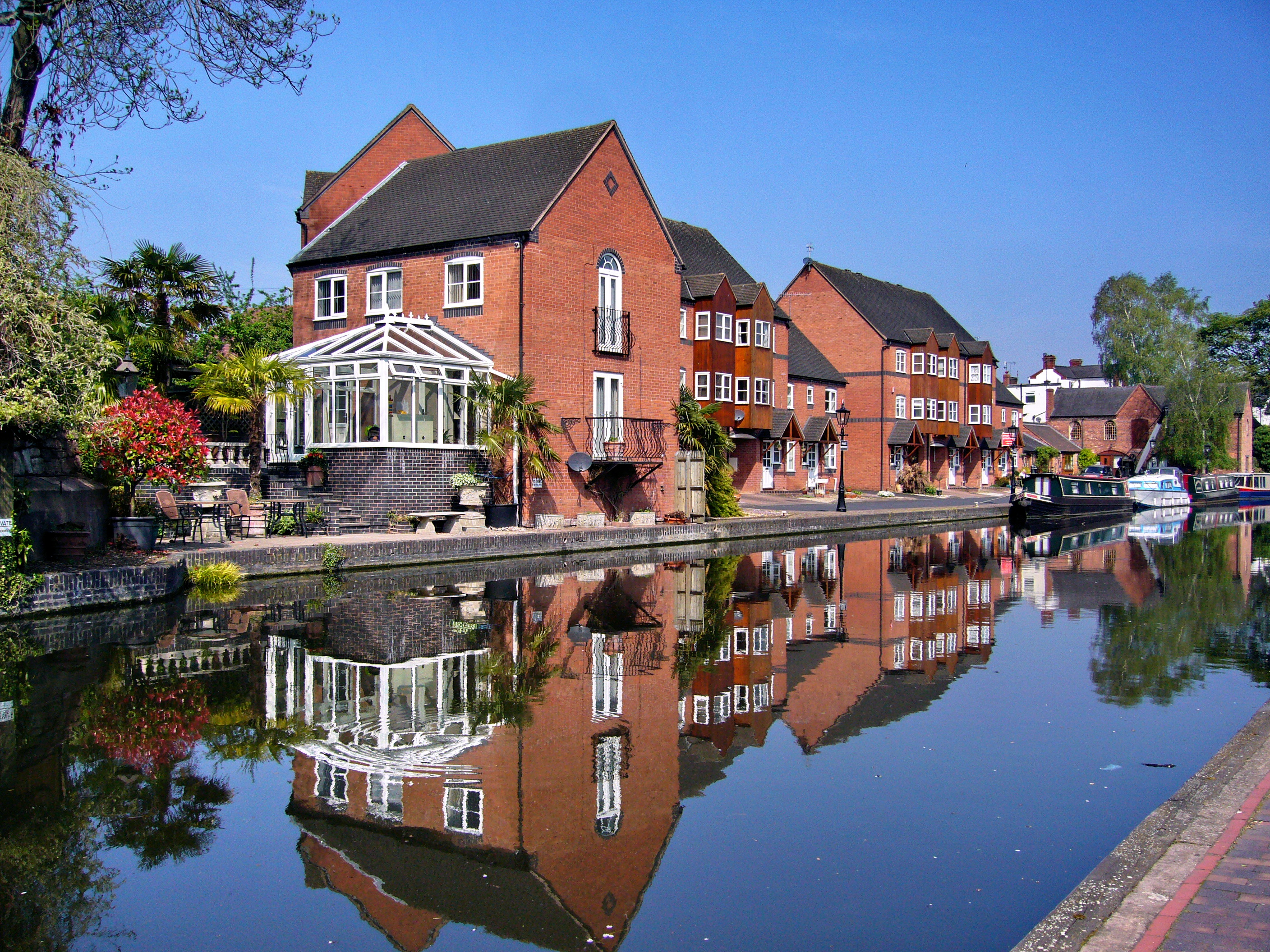 Stourport on Severn